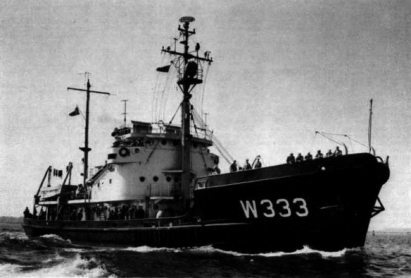 USCGC Yamacraw (W333)